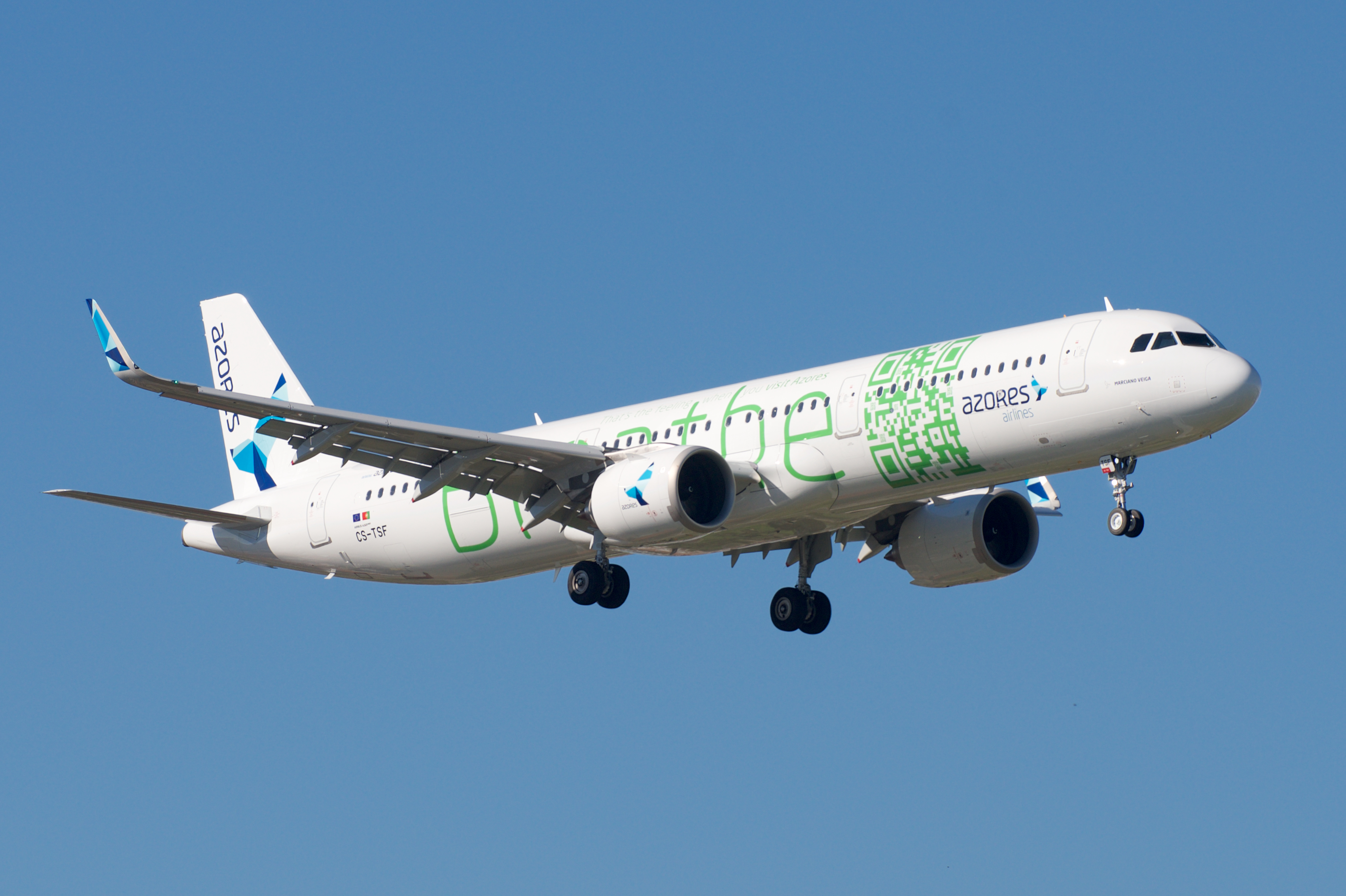 "Breathe" special scheme. Named Marciano Veiga